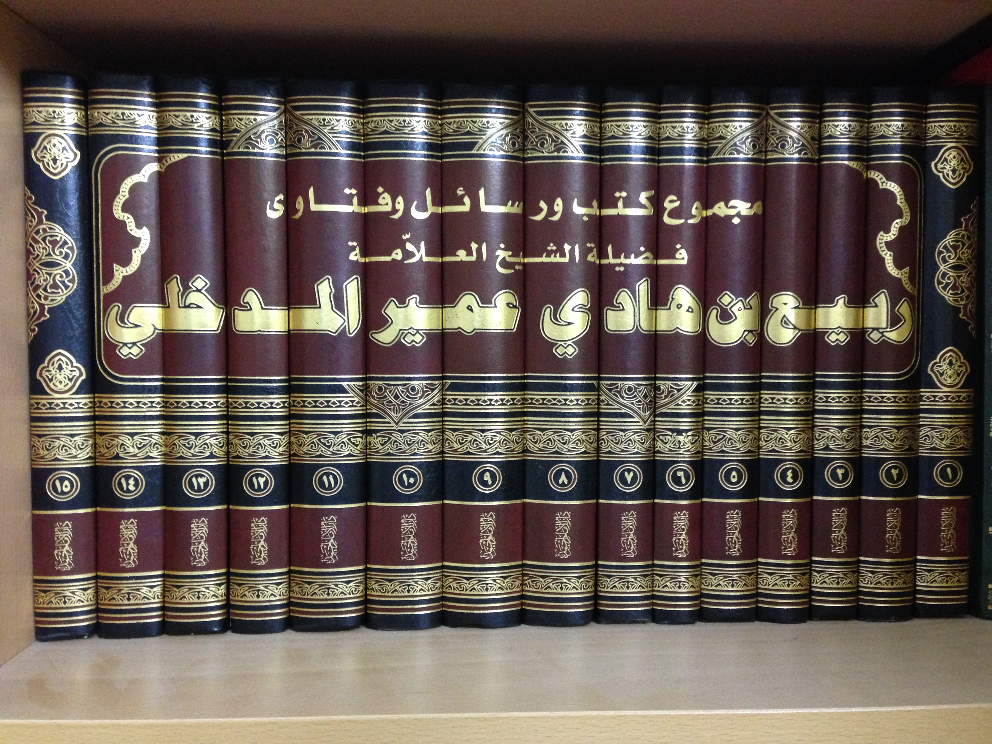 The 15 volume set of Shaykh Rabee Al-Madkhali's work